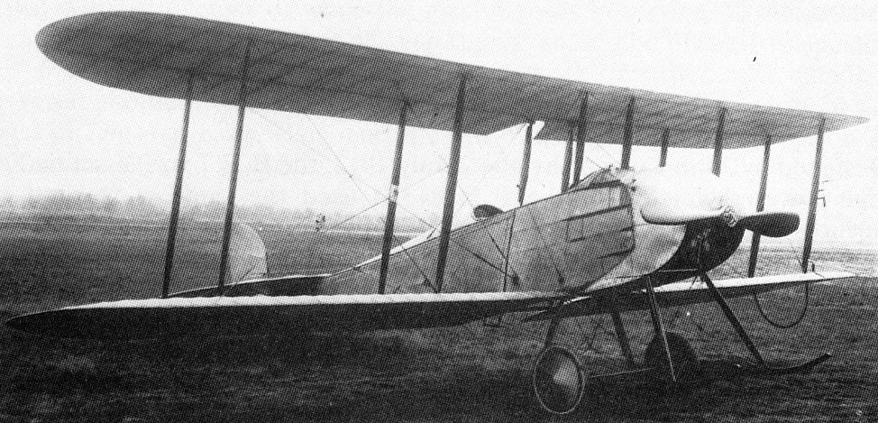 Prototype B.E.8 with undivided cockpits